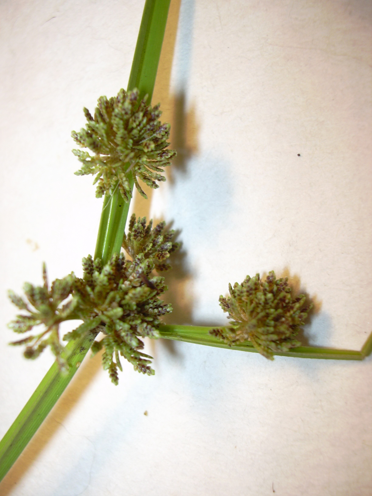 Cyperus difformis (seeds). Location: Maui, Hana Hwy